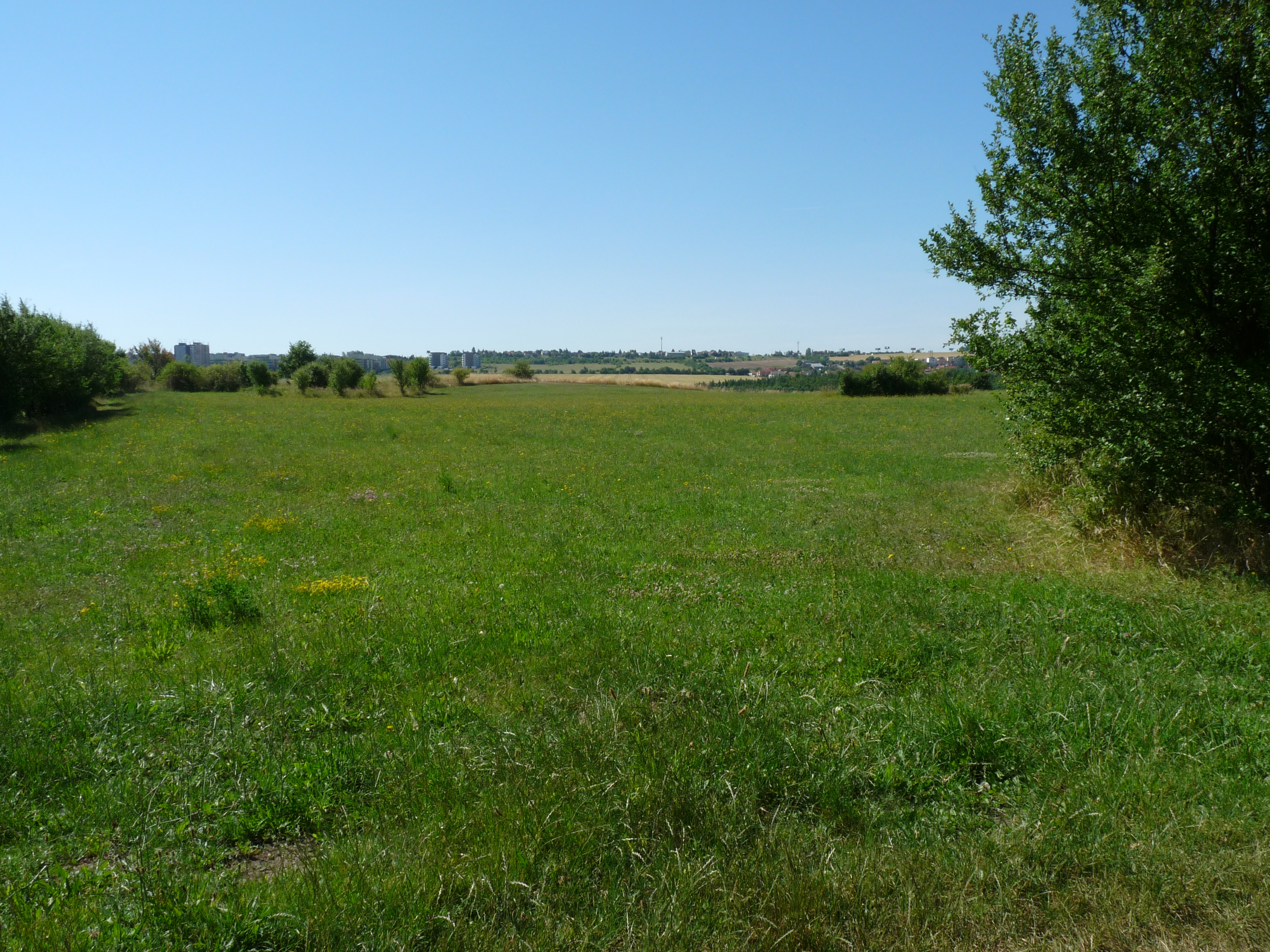 Jinonice, Prague, Czech Republic - educational trail through the Prokopské údolí.